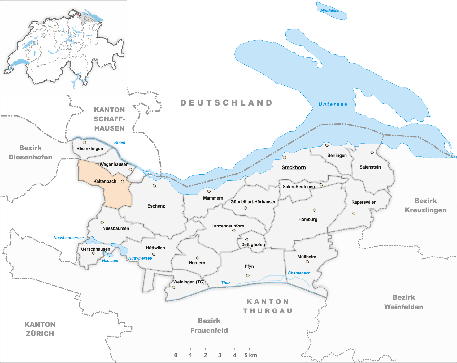 Municipality Kaltenbach